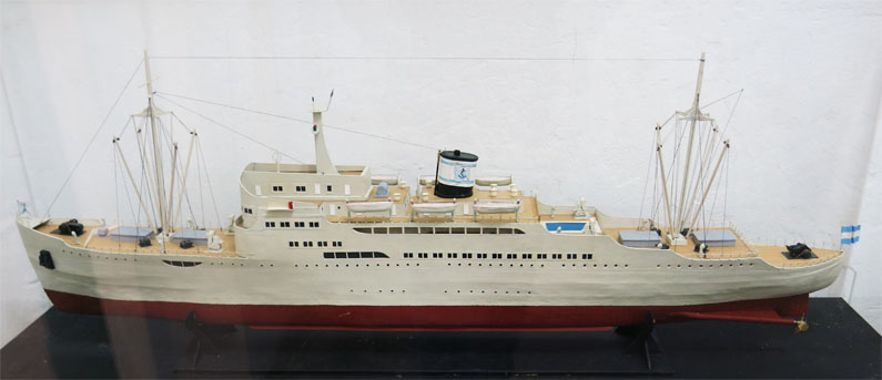 Model of the M / N Libertad.